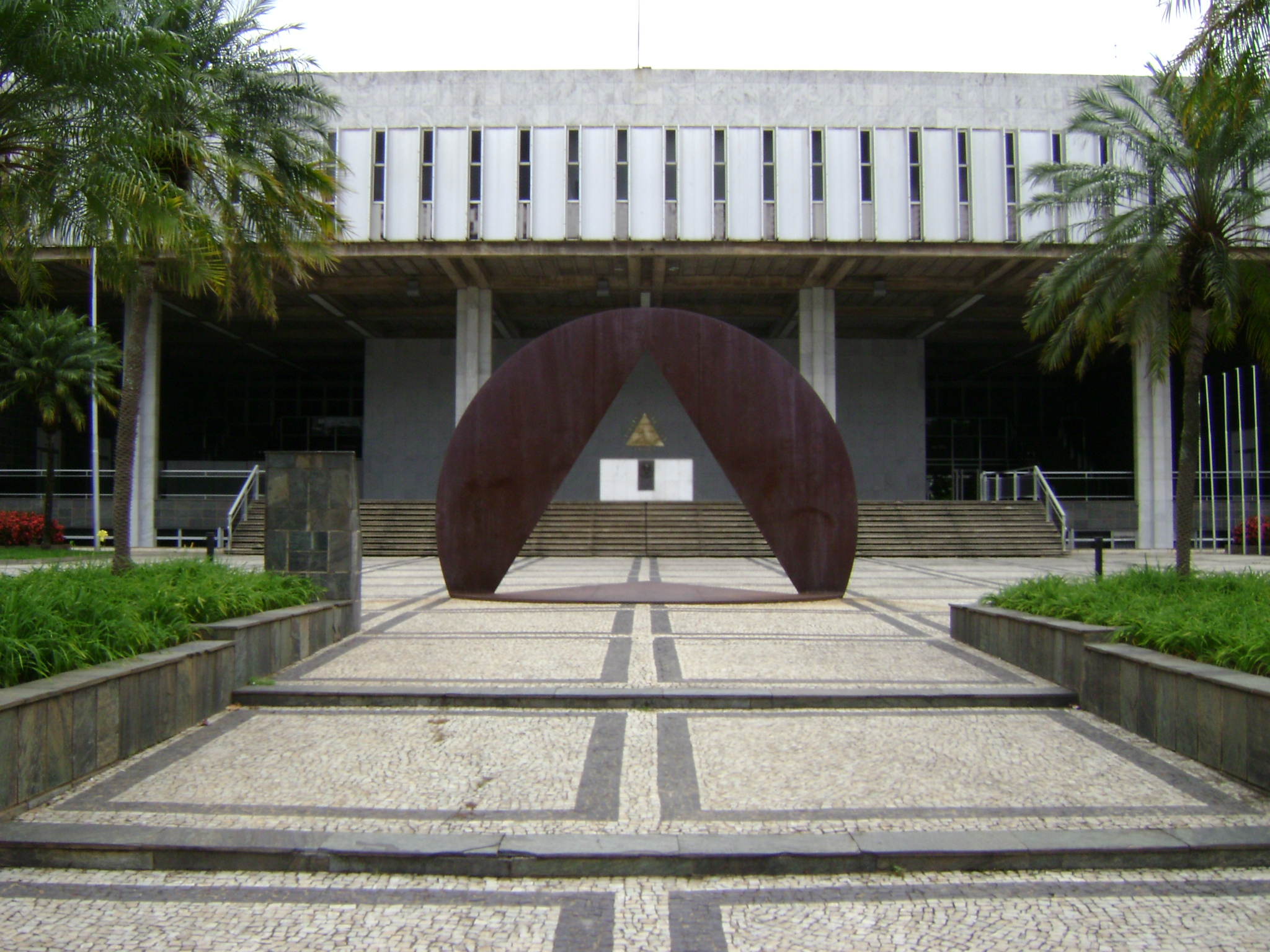 Assembleia Legislativa do Estado de Minas Gerais (Palácio da Inconfidência)